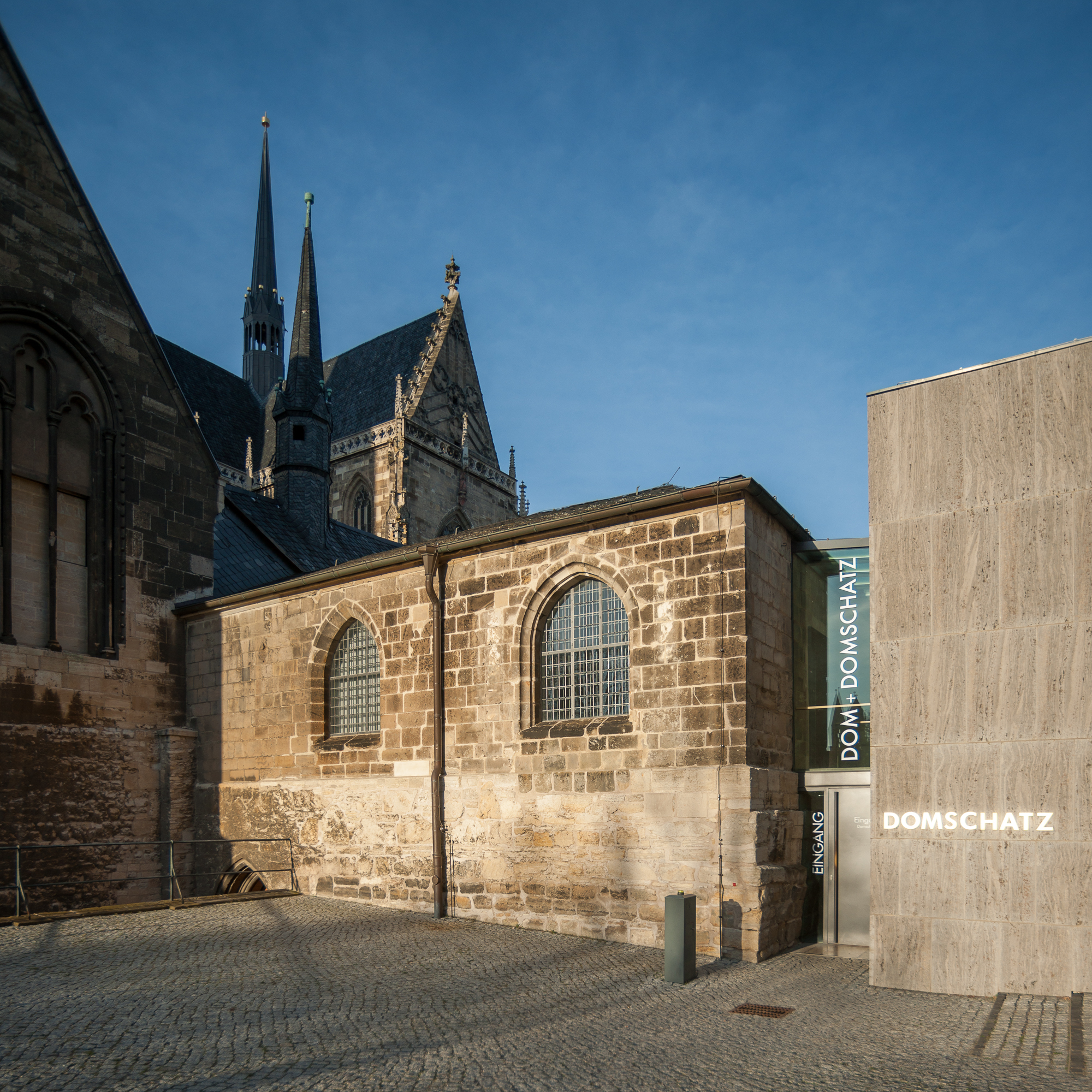 Entrance to the cathedral trasury of Halberstadt Cathedral